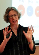 Laura Martignon is a Colombian and Italian professor and scientist. Today she serves as a Professor of Mathematics at the Ludwigsburg University of Education